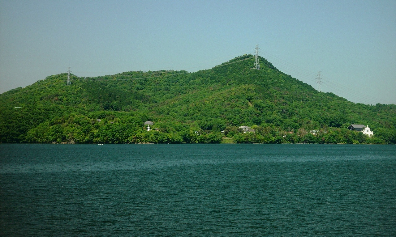 Mount_Owarifujij_and Meiji Mura from Lake Iruka